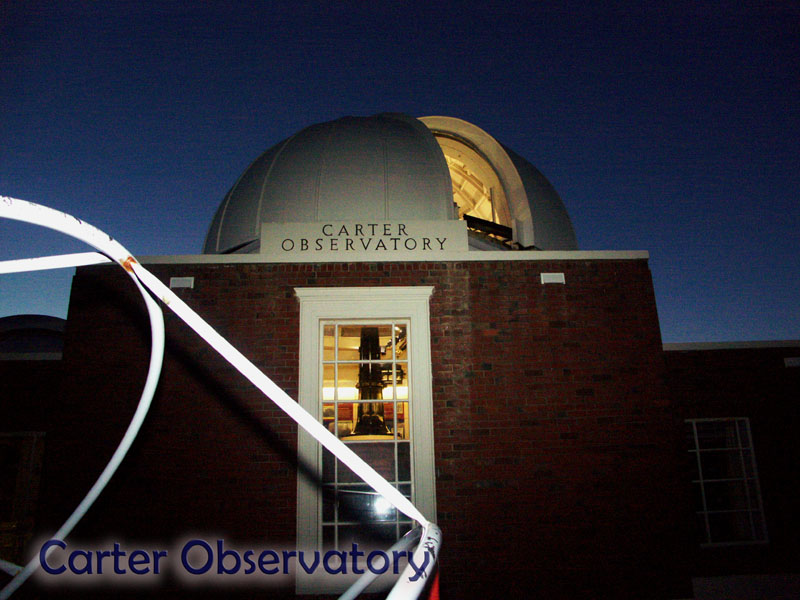 Carter Observatory, The National Observatory of New Zealand, photo by Paul Moss. Single exposure, minimal adjustment. This exact image is now published in the foreword of Astronomy Aotearoa, awarded best design by the BPANZ, written by Robert Shaw. The image also appears in the hard copy New Zealand Almanac, published by the Phoenix Astronomical Society, supported by the Royal Astronomical Society of New Zealand, as part of the IYA2009 programme.